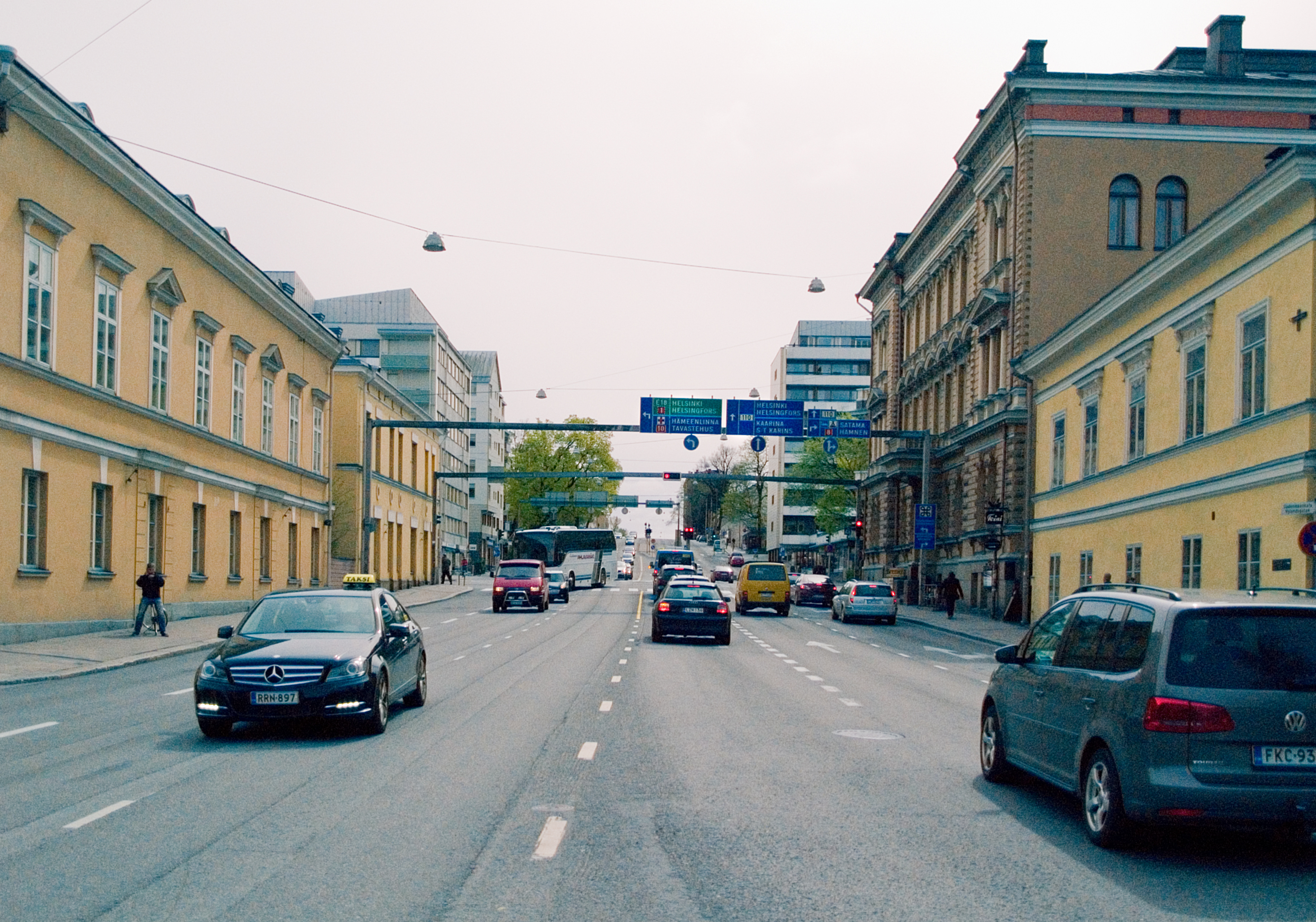 Facing southeast along Uudenmaankatu street at Turku's historical centre. Intersection of Hämeenkatu in the background. May 2014.